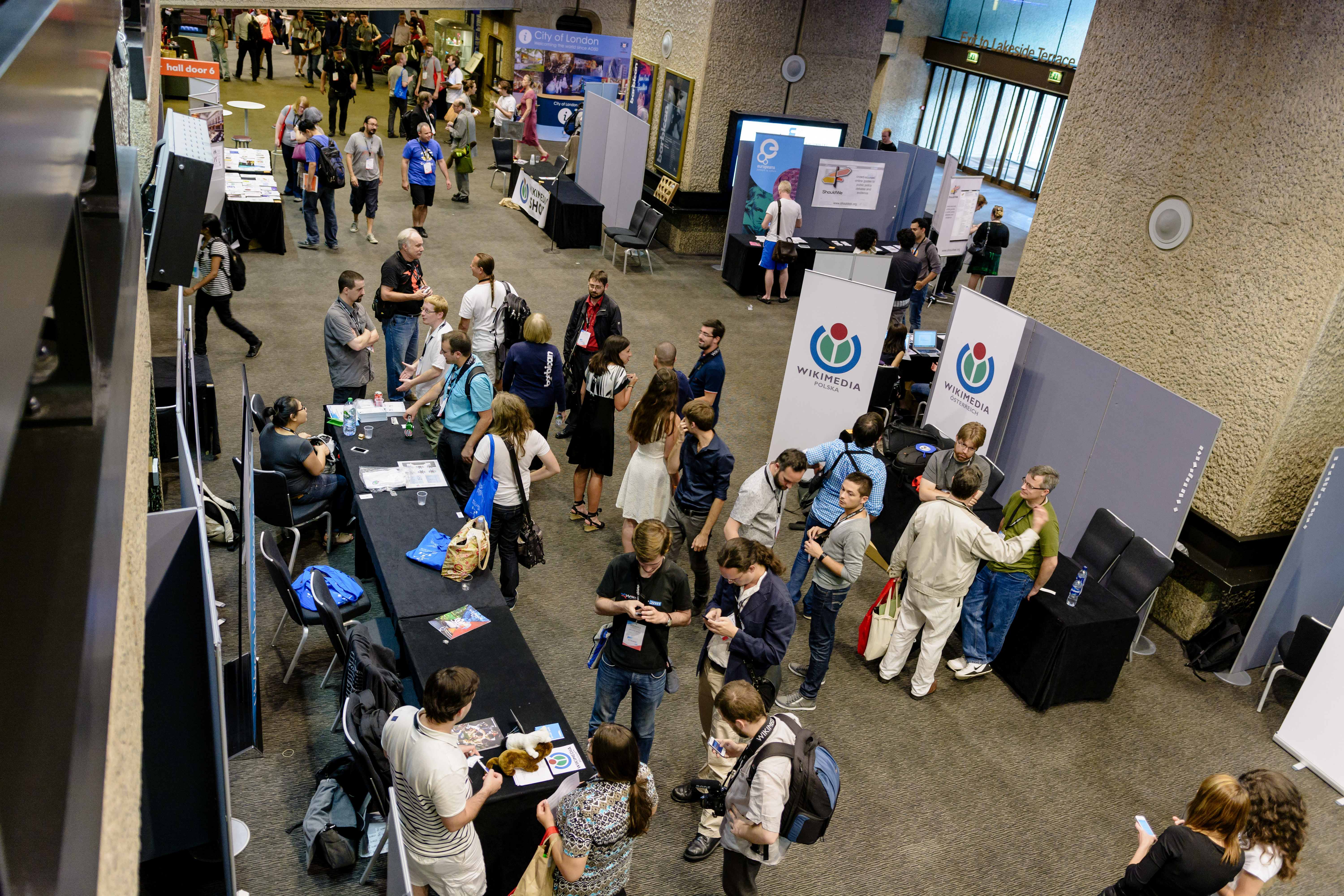 Wikimania 2014 stands